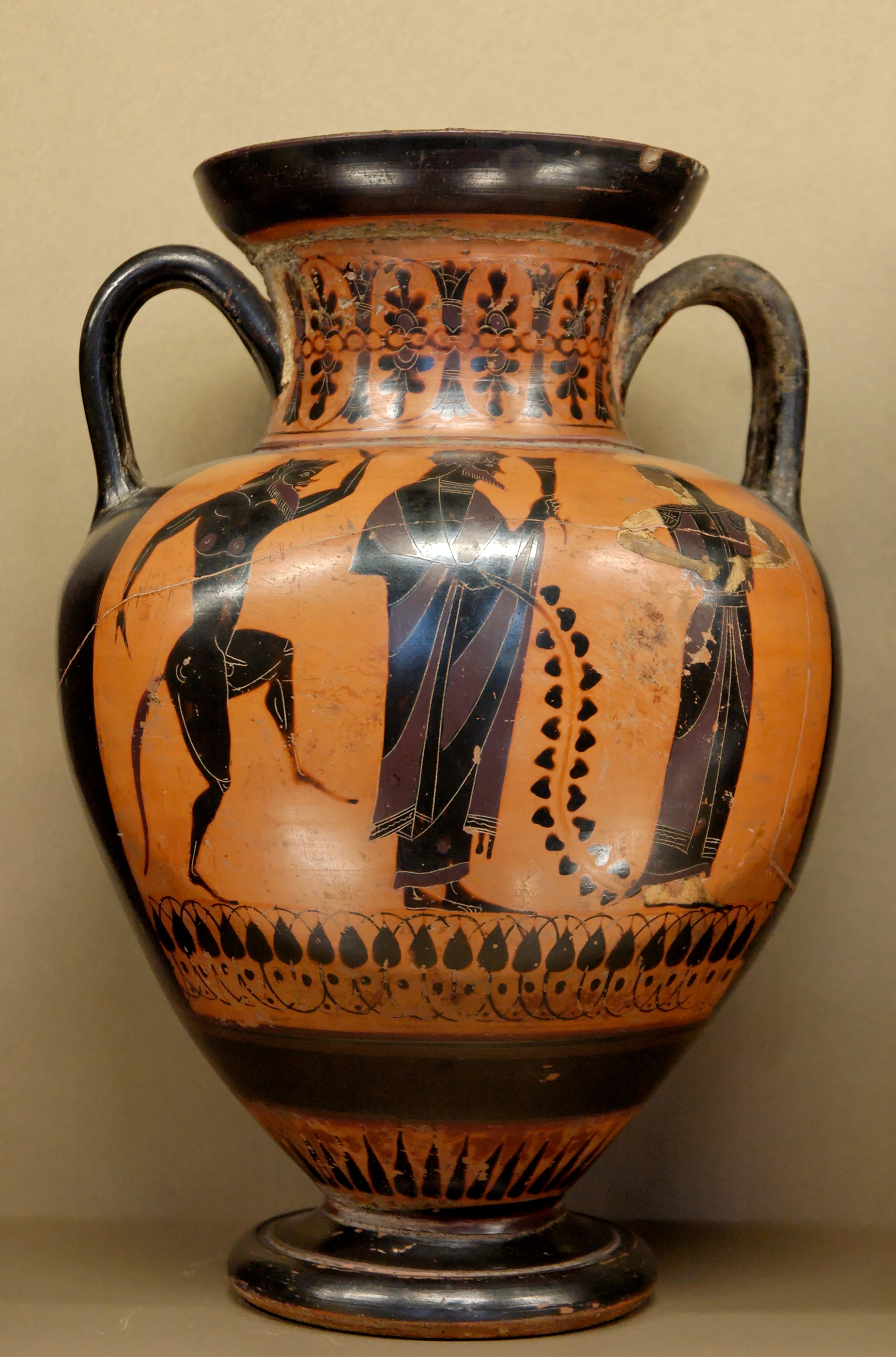 Dionysos, a silenus and a maenad. Attic black-figure neck-amphora, ca. 540–530 BC.